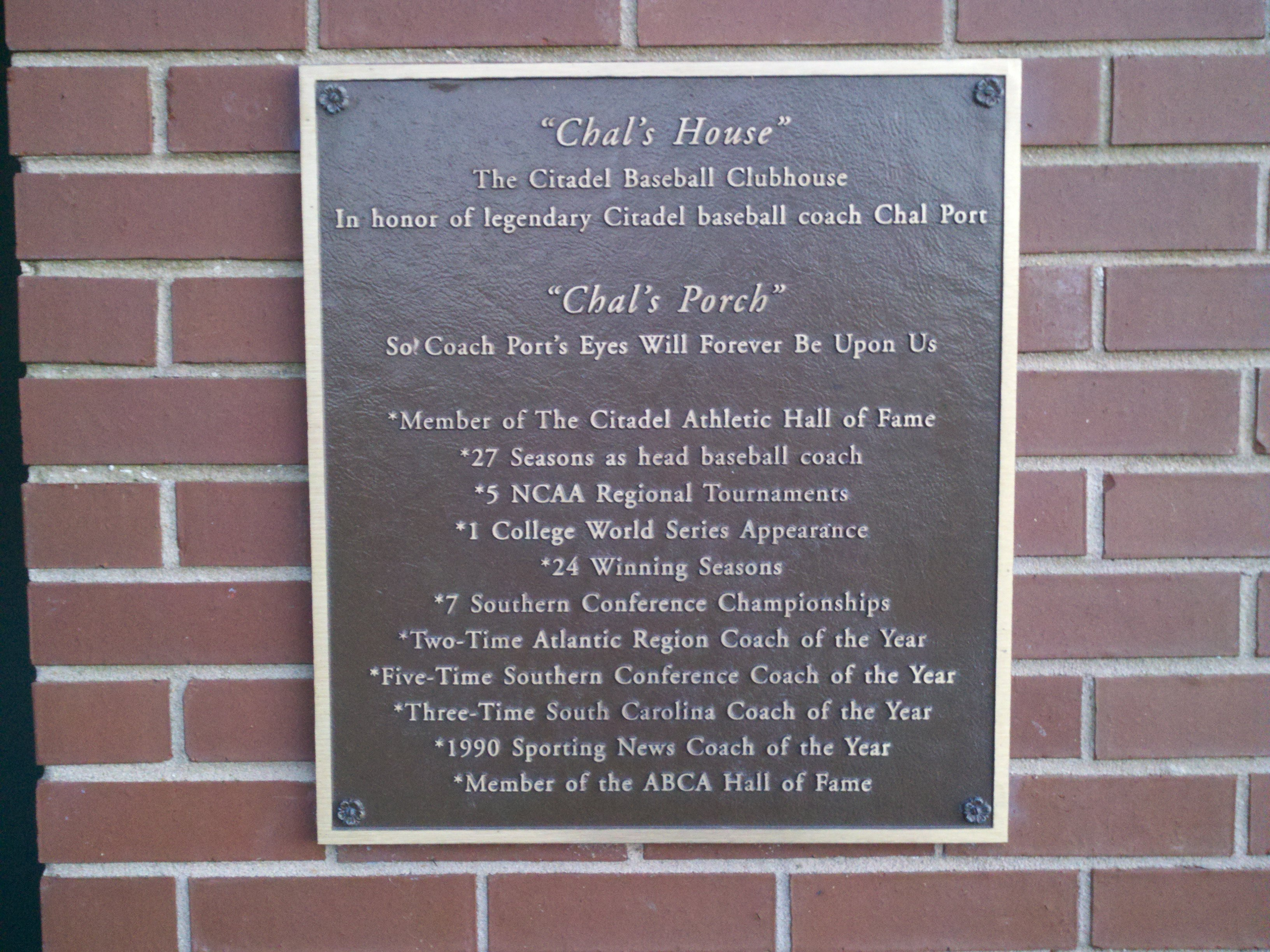 Plaque at Joseph P. Riley, Jr. Park celebrating Citadel coach Chal Port